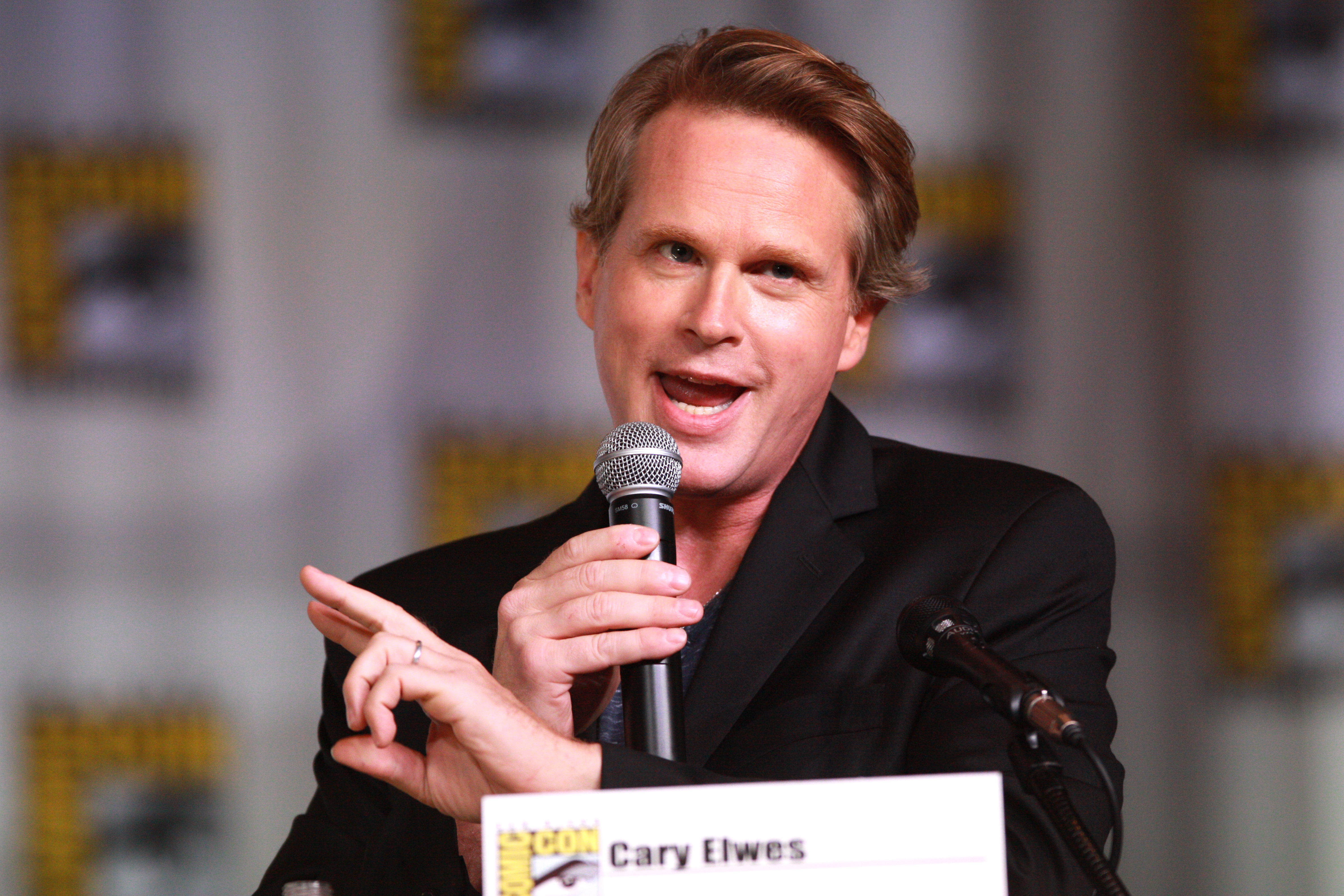 Cary Elwes speaking at the 2013 San Diego Comic Con International, for "Psych", at the San Diego Convention Center in San Diego, California.